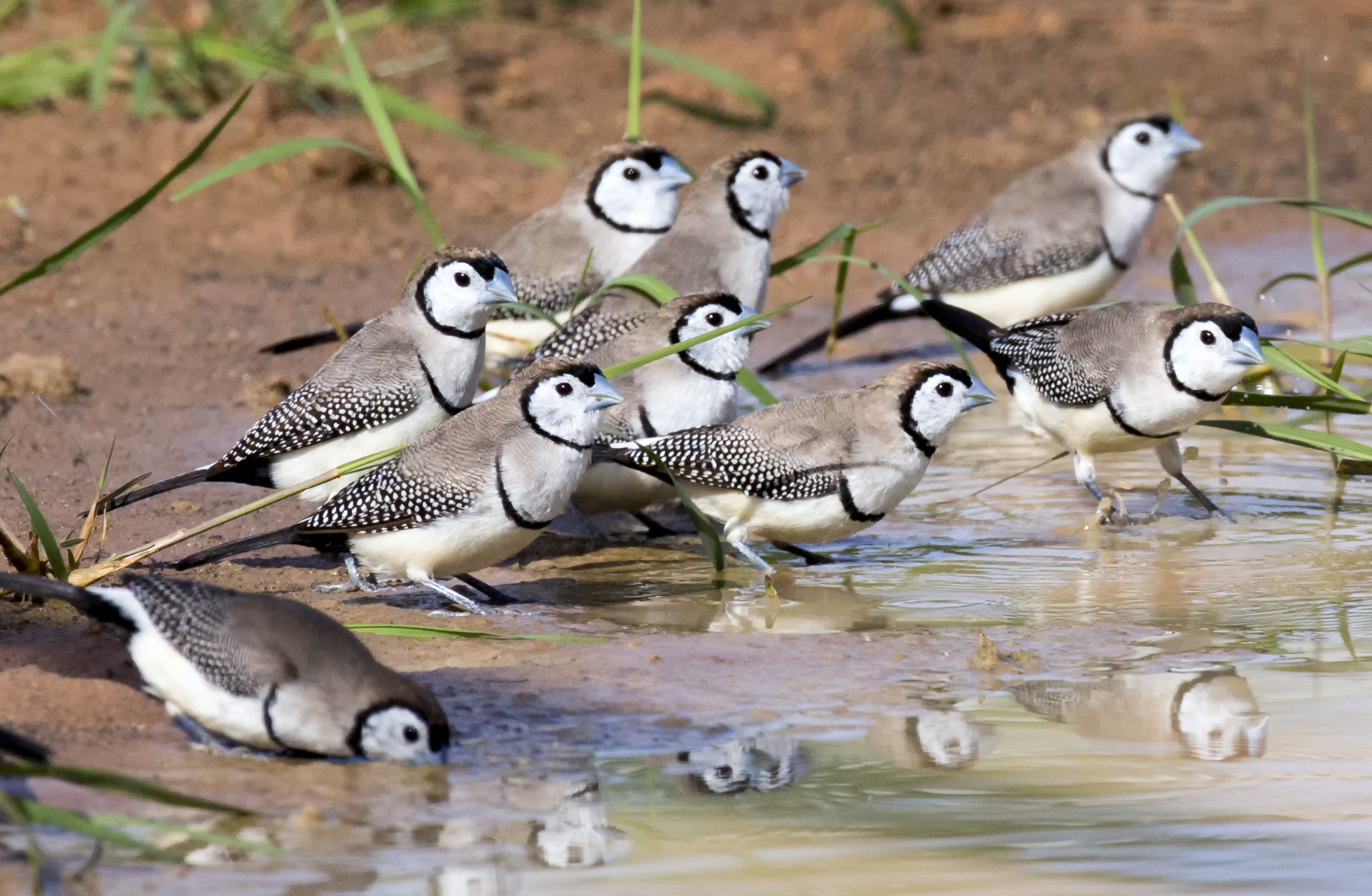 Double bar finches are high energy and never stop for long. Nice little birds